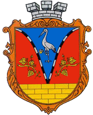 The coat of arms of the city of Artsyz, Odessa Oblast, Ukraine